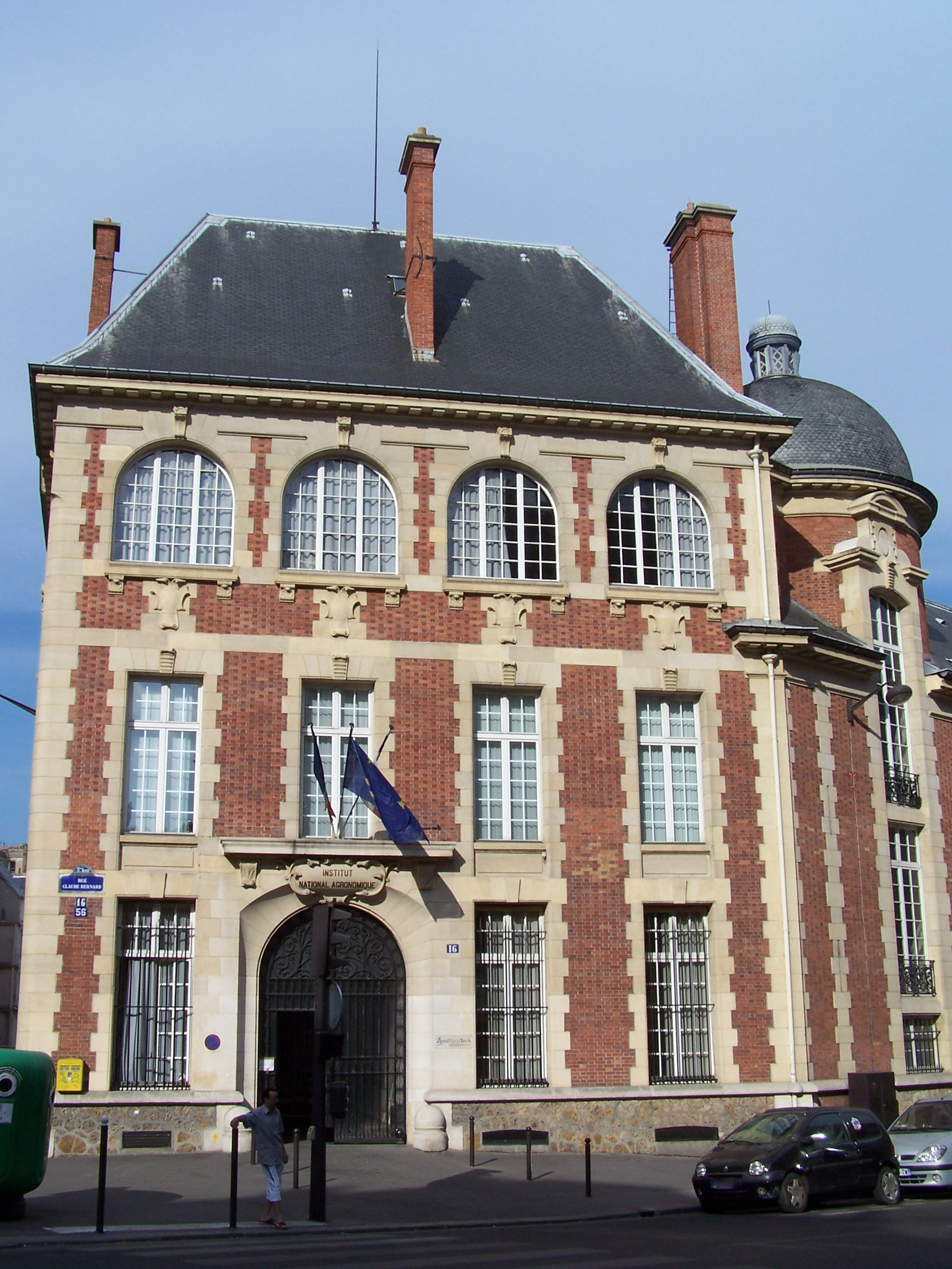 View of the École nationale supérieur d'agronomie Paris-Grignon at rue Claude-Bernard in Paris